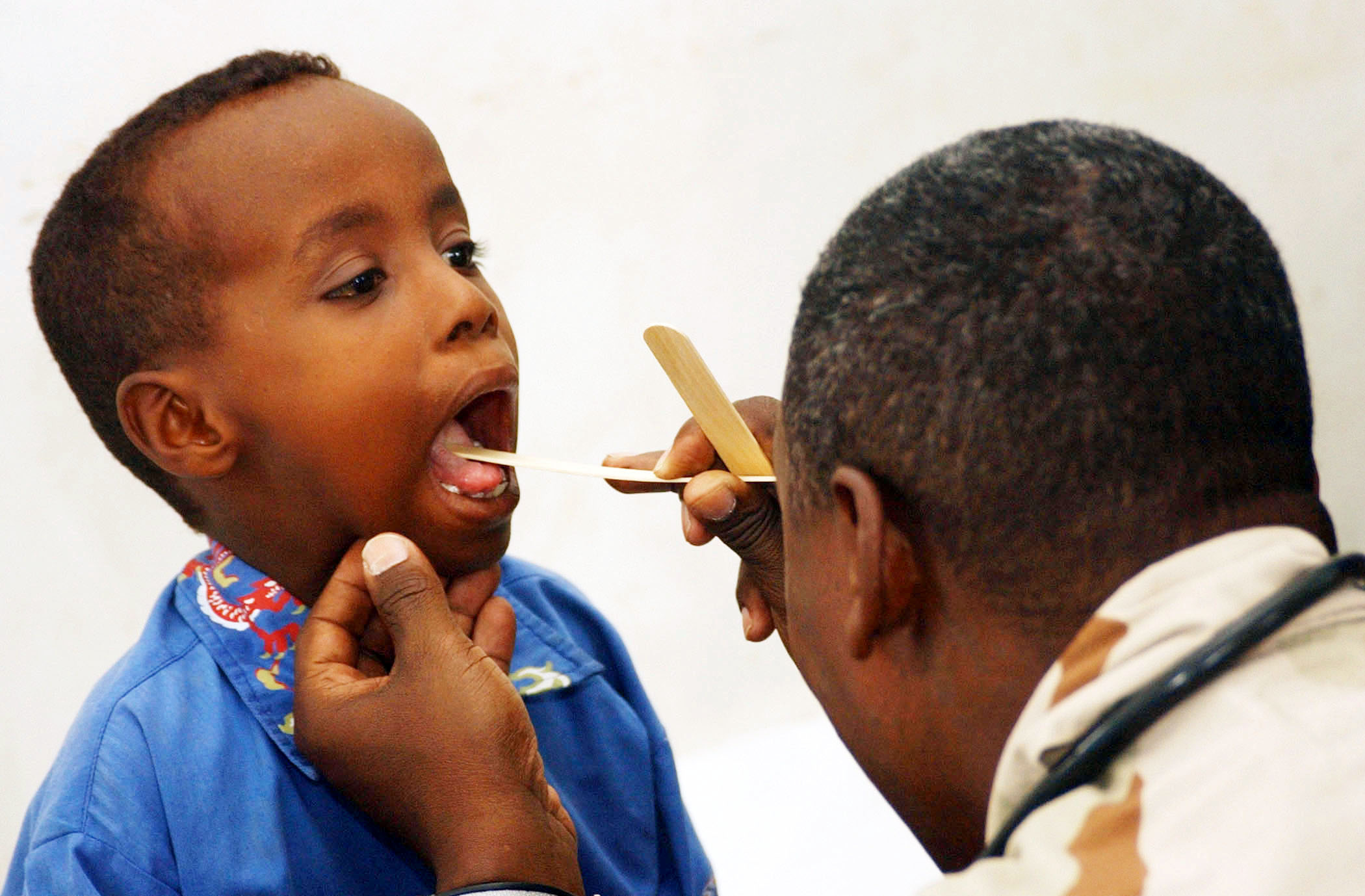 Dorale, Djibouti (May 3, 2003) -- U.S. Navy Capt. Kenneth E. Leonard, general surgeon assigned to Combined Joint Task Force - Horn of Africa (CJTF-HOA) Navy Emergency Medical/Surgical Team, examines a Djiboutian boy during a Medical Civil Action Program (MEDCAP) held at the clinic. Although the mission of the task force is to detect, disrupt and defeat terrorism in the Horn of Africa region, CJTF-HOA is also here to assist the host nation in improving its citizens' quality of life. U.S. Marine Corps photo by Cpl. Paula M. Fitzgerald. (RELEASED)